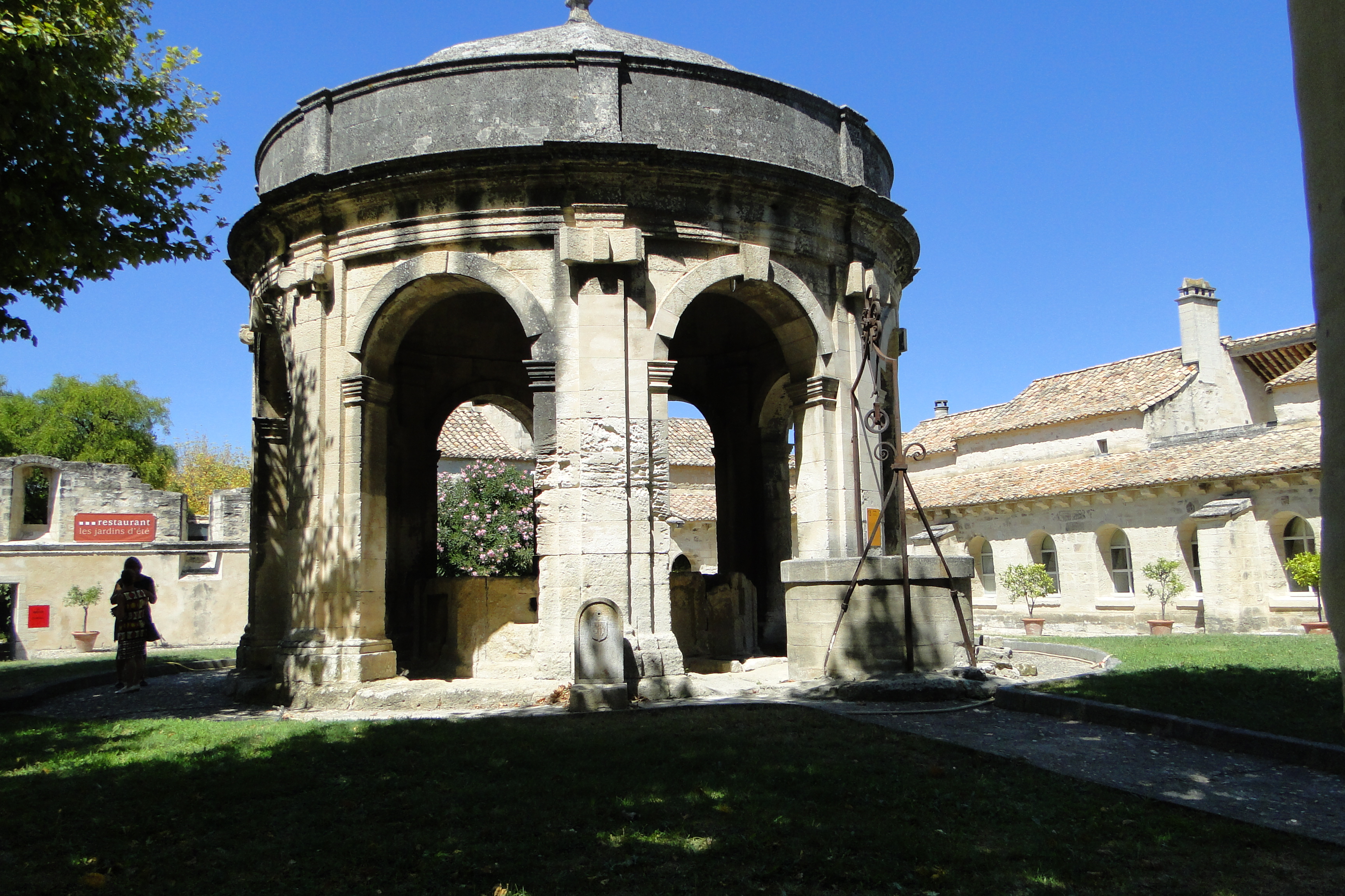 Fountain in the cloister of the Chartreuse Notre-Dame-du-Val-de-Bénédiction